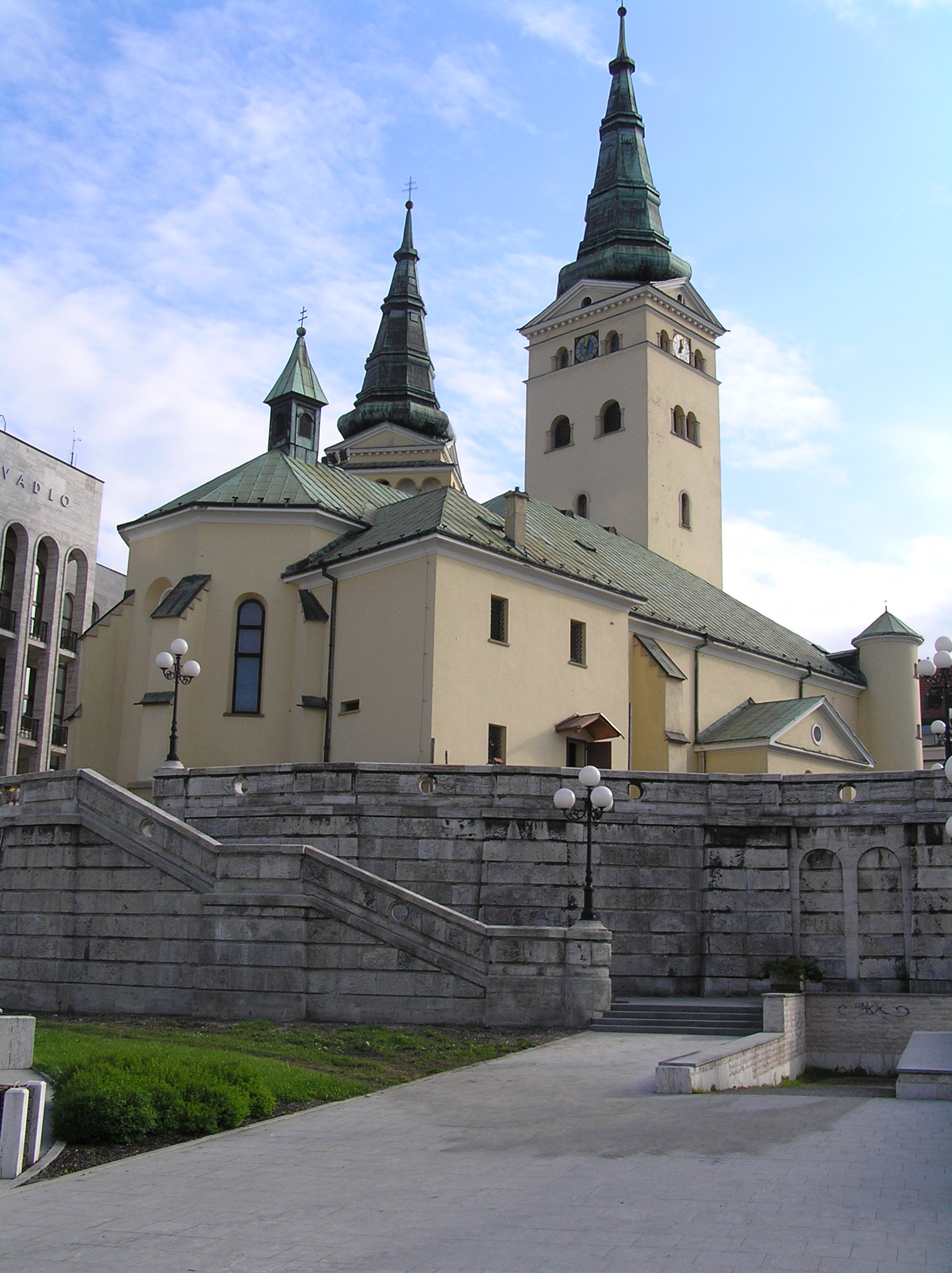 Žilina, Námestie A. Hlinku: pohľad na Kostol Najsvätejšej Trojice This medium shows the protected monument with the number 511-1393/1 in the Slovak Republic.